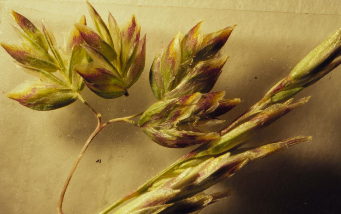 The spiklets of Poa pratensis are compressed laterally, in contrast to the spikelets of Poa secunda (lower right), which have spikelets that are either round in cross section (lemmas not splayed out) or at these the lemmas have very rounded backs.